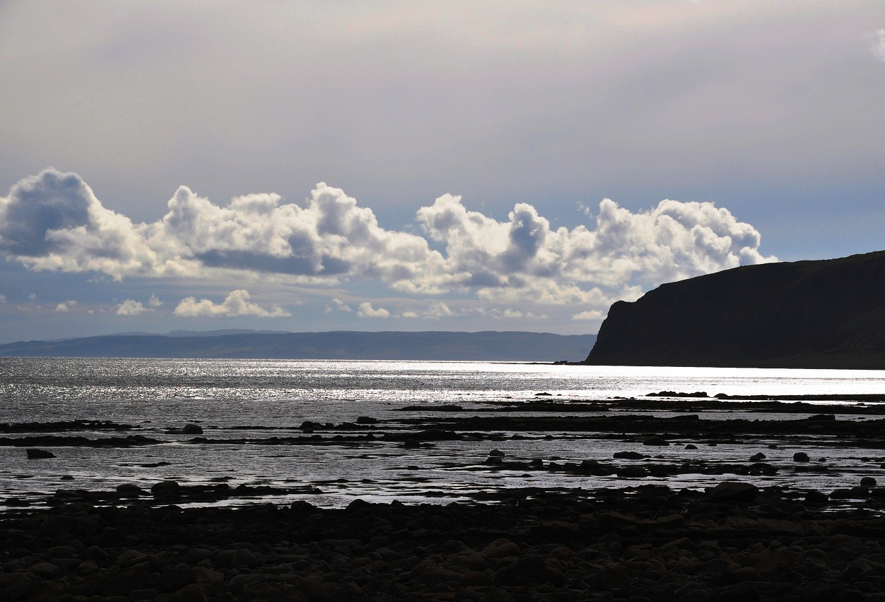 Cloudscapes over Kildonan Bay and Bennan Head (Kildonan, Isle of Arran, North Ayrshire, Scotland, United Kingdom). In the background is Kintyre.